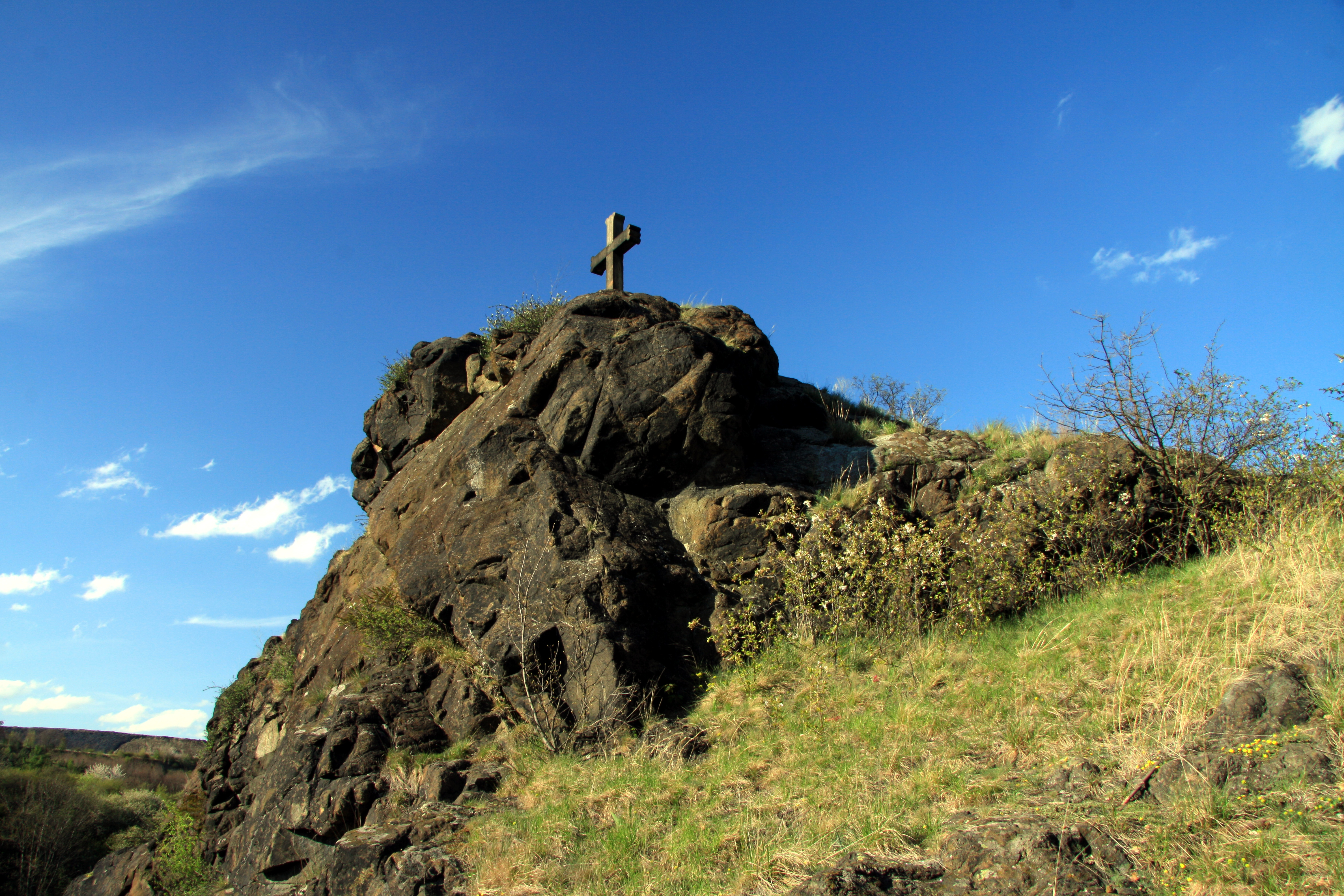 Natural monuent Kalvárie v Motole (Calvary in Motol) in Prague, Czech Republic - Google Maps - Google Earth